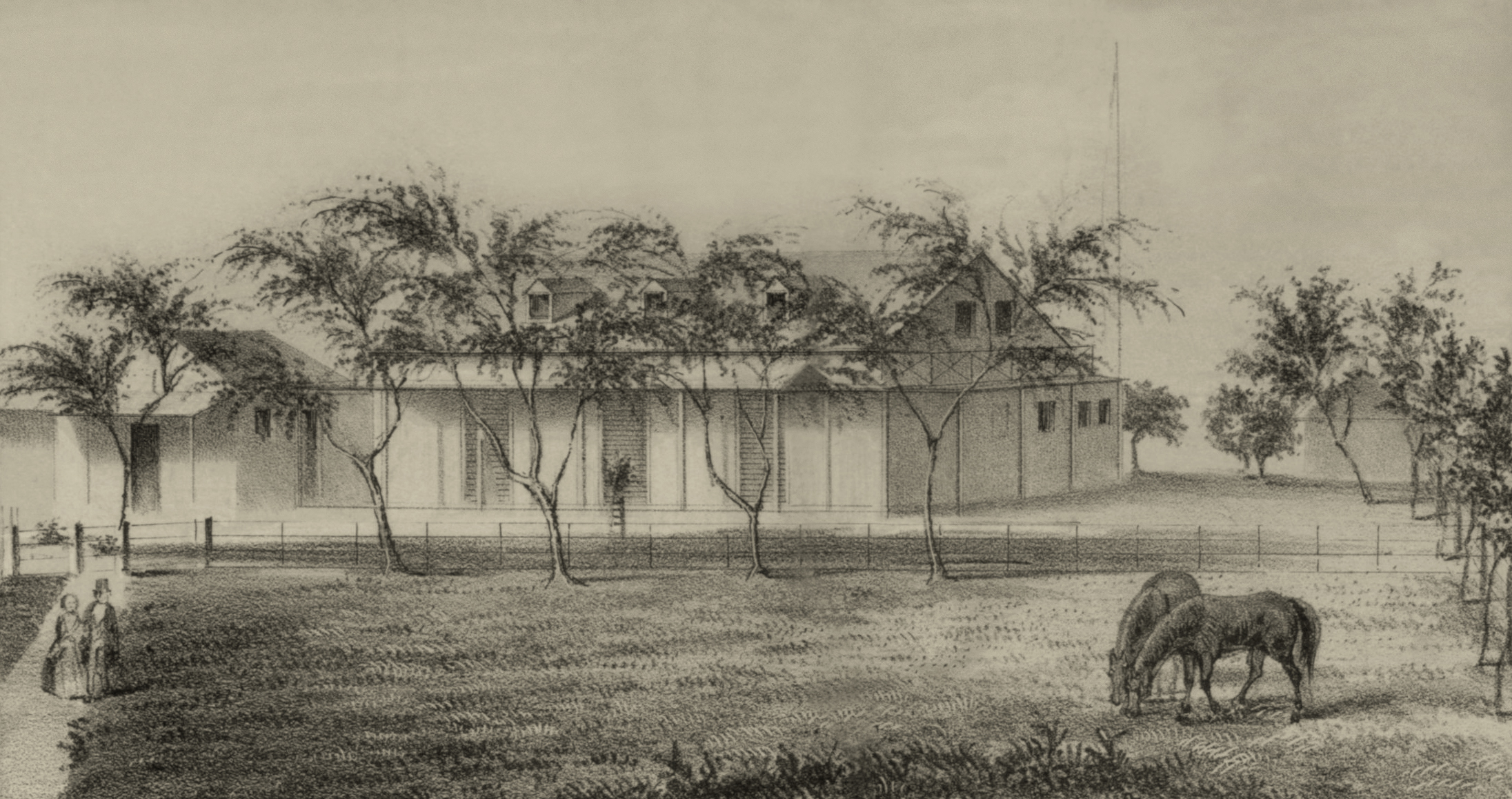 Residence of General Miller, H. B. M. Consul, Beretania street, adjoining Washington Place. By the testimony of old residents this building was standing as early as 1833. The earlier occupancy of these premises by Charlton, also the representative of Great Britain, obtained for it among Hawaiians the name "Pelekane," which was eventually applied to the street on which it fronted. The side street, named after General Miller, was so named much later as he did not arrive here till 1844. The low cottage, standing far back from the street, with its extensive lawn and branching trees give it, more than any other place here, the appearance of an English home, as in fact it was, continuously, up to 1894, when its lease was transferred by the McKibbins to Liliuokalani. Warren Goodale (1897). "Honolulu in 1853". Papers of the Hawaiian Historical Society. Hawaiian Historical Society. derivative work: Begoon